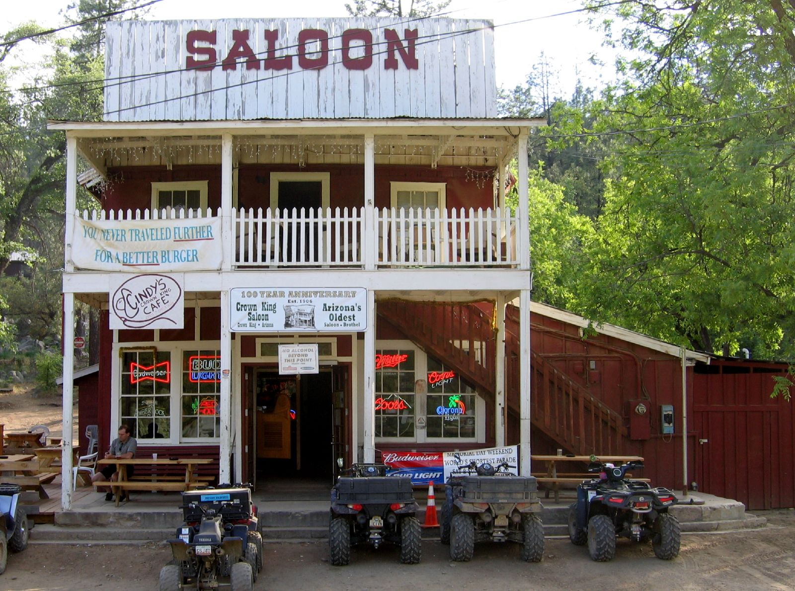 Crown King Saloon, Crown King AZ